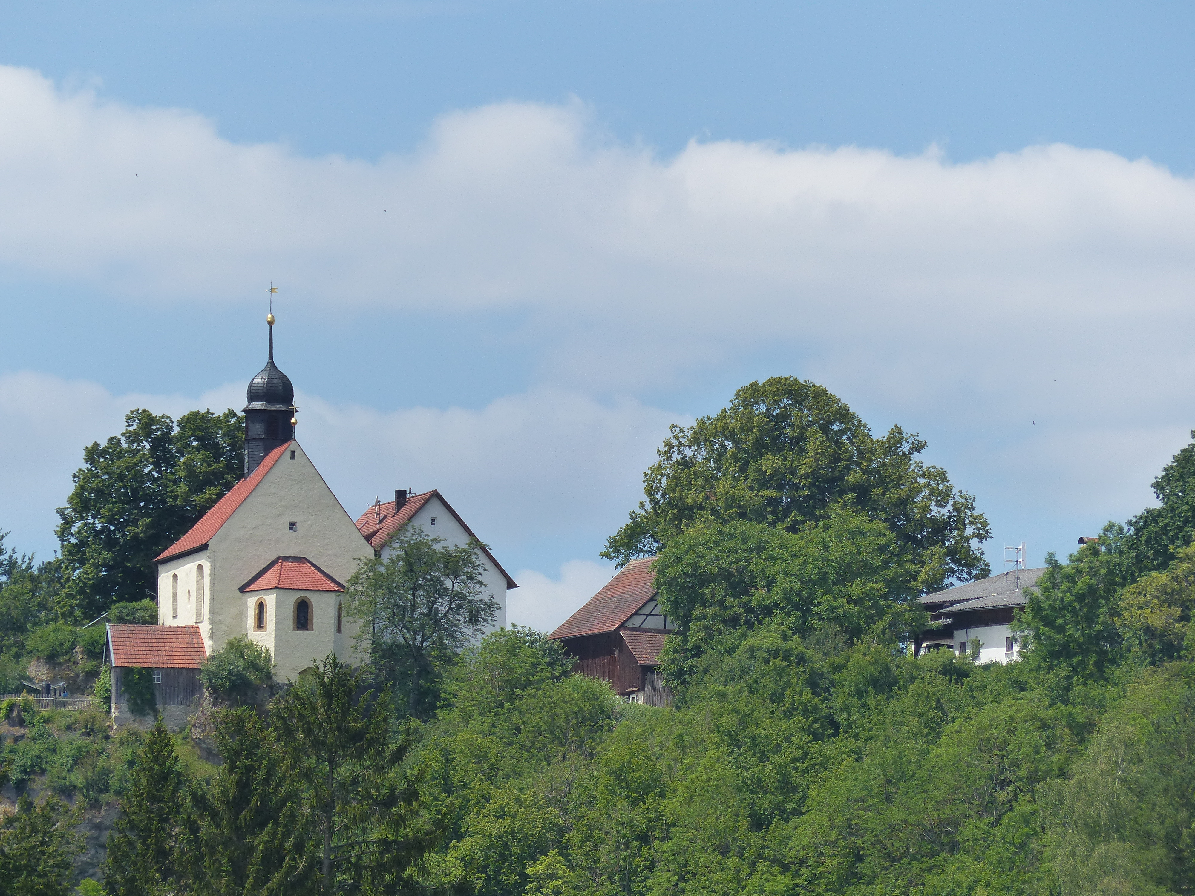 The solitude Klausstein, a district of the municipality of Ahorntal.